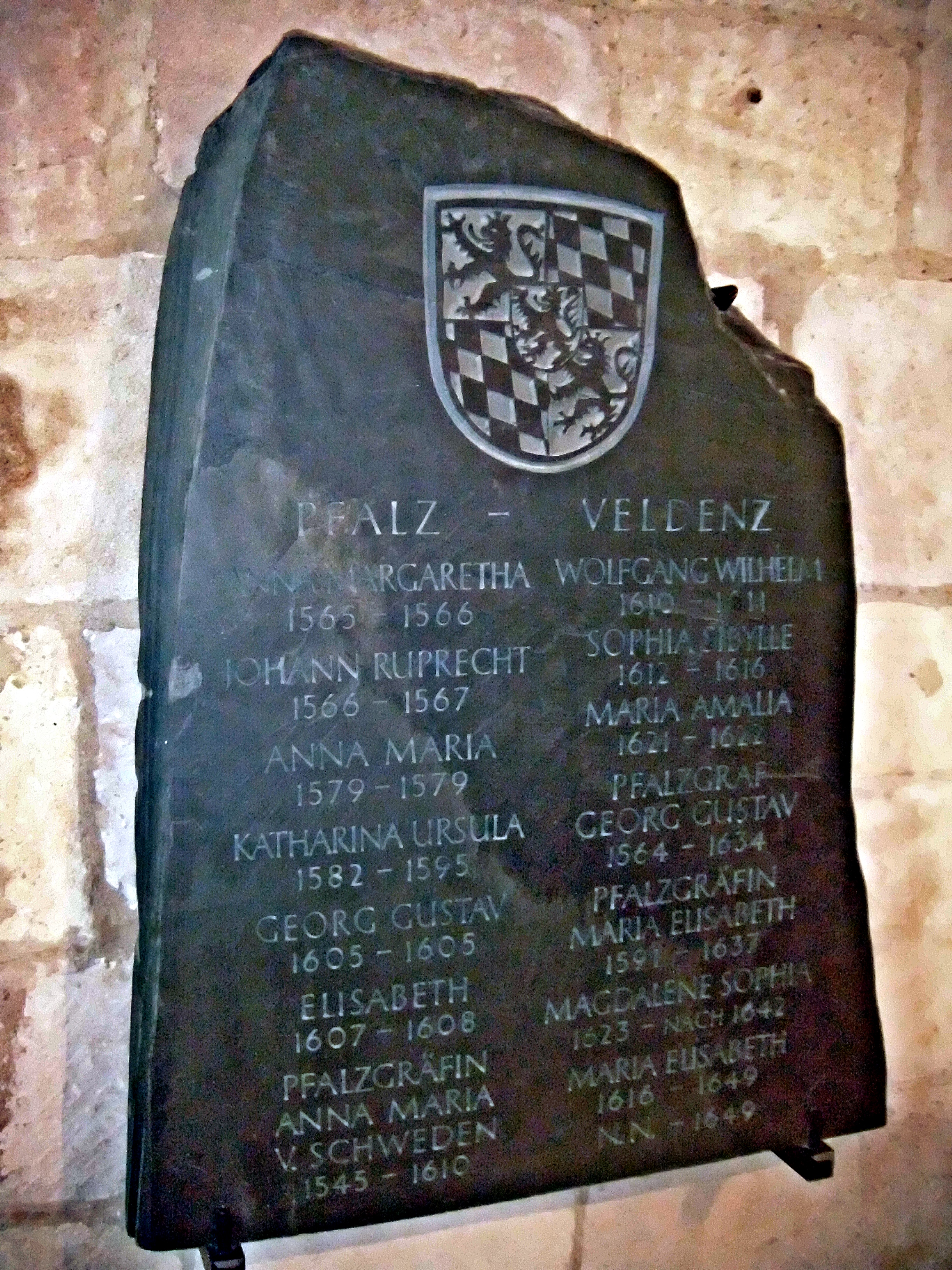 Remigiusberg, Kirche, Gedenkstein für die Wittelsbacher aus dem Haus Pfalz-Veldenz